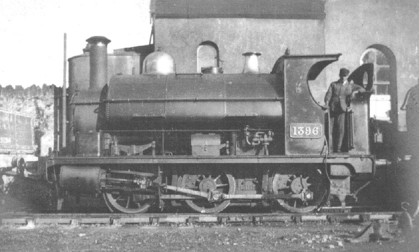 GWR 0-6-0ST 1396, previously Cornwall Minerals Railway 0-6-0T number 5. Photographed at St Blazey railway station, Cornwall.